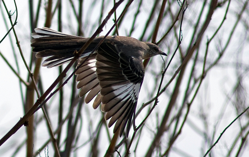 Mimus polyglottos, Northern Mockingbird, in flight. Author's comment: "Taken at Battery Park in Old New Castle, Delaware USA".